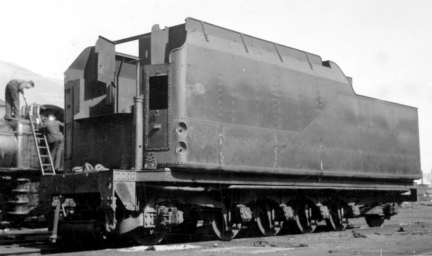 Experimental Type JV tender no. N60 at Paardeneiland. Inscription on back of picture in D.F. Holland's own hand reads: "N.B.G. 2-8-2 Abortion", N.B.G. presumably standing for "No Bloody Good"